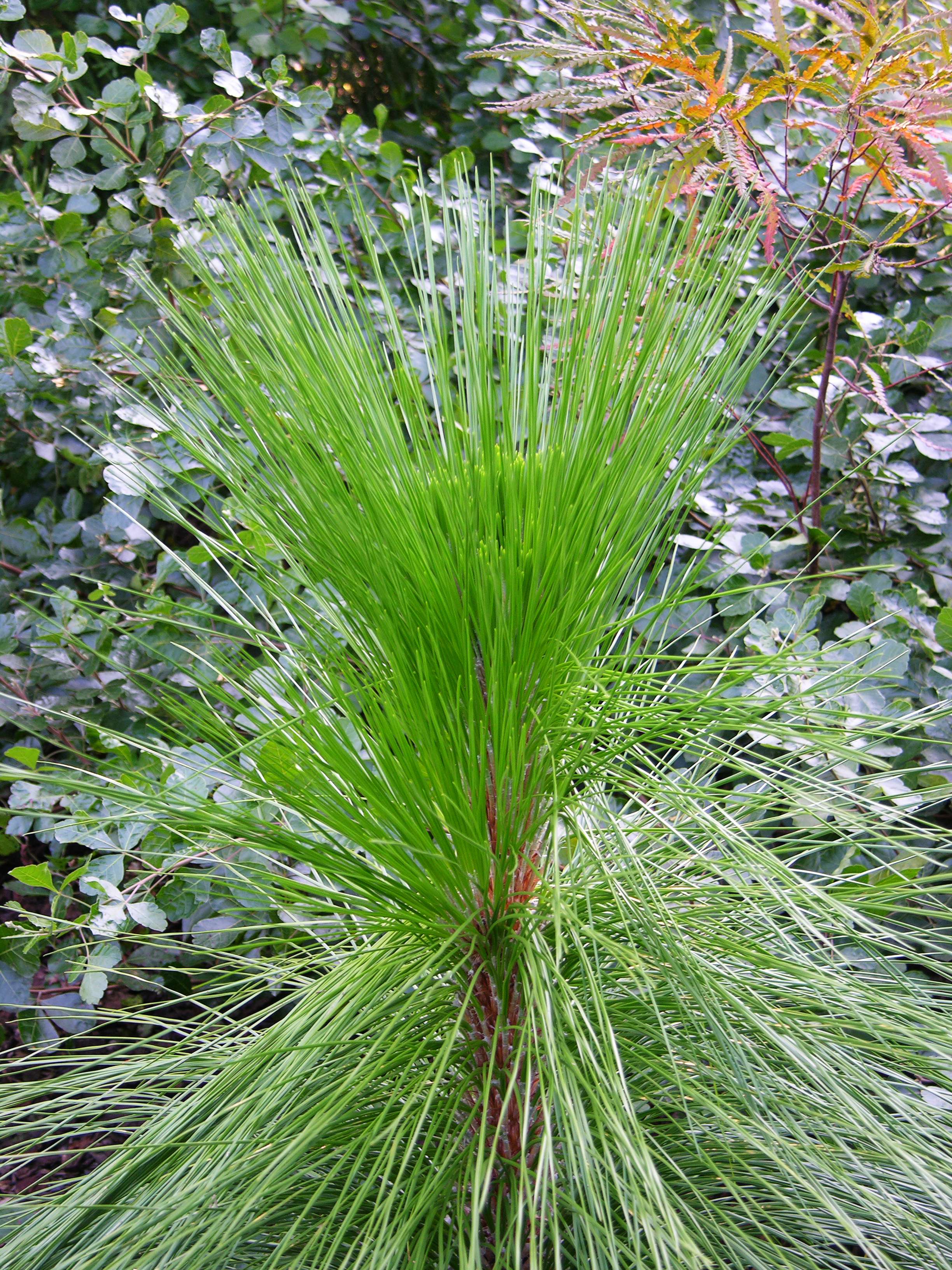 Photograph of a sapling of the Longleaf Pineen (Pinus palustris en ). Photo taken at the Tyler Arboretum where it was identified.